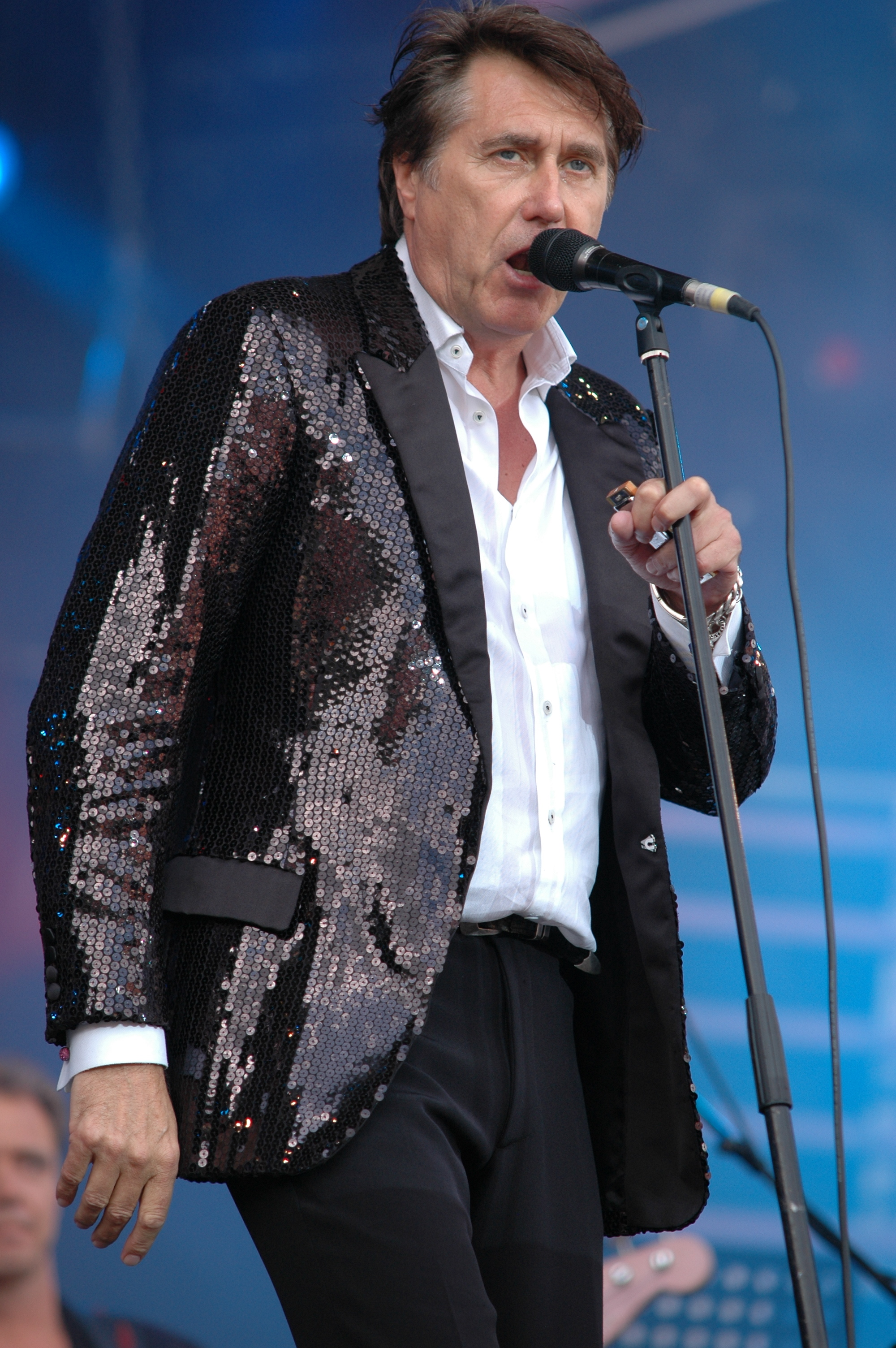 Bryan Ferry on stage at the Vieilles Charrues Festival in 2007